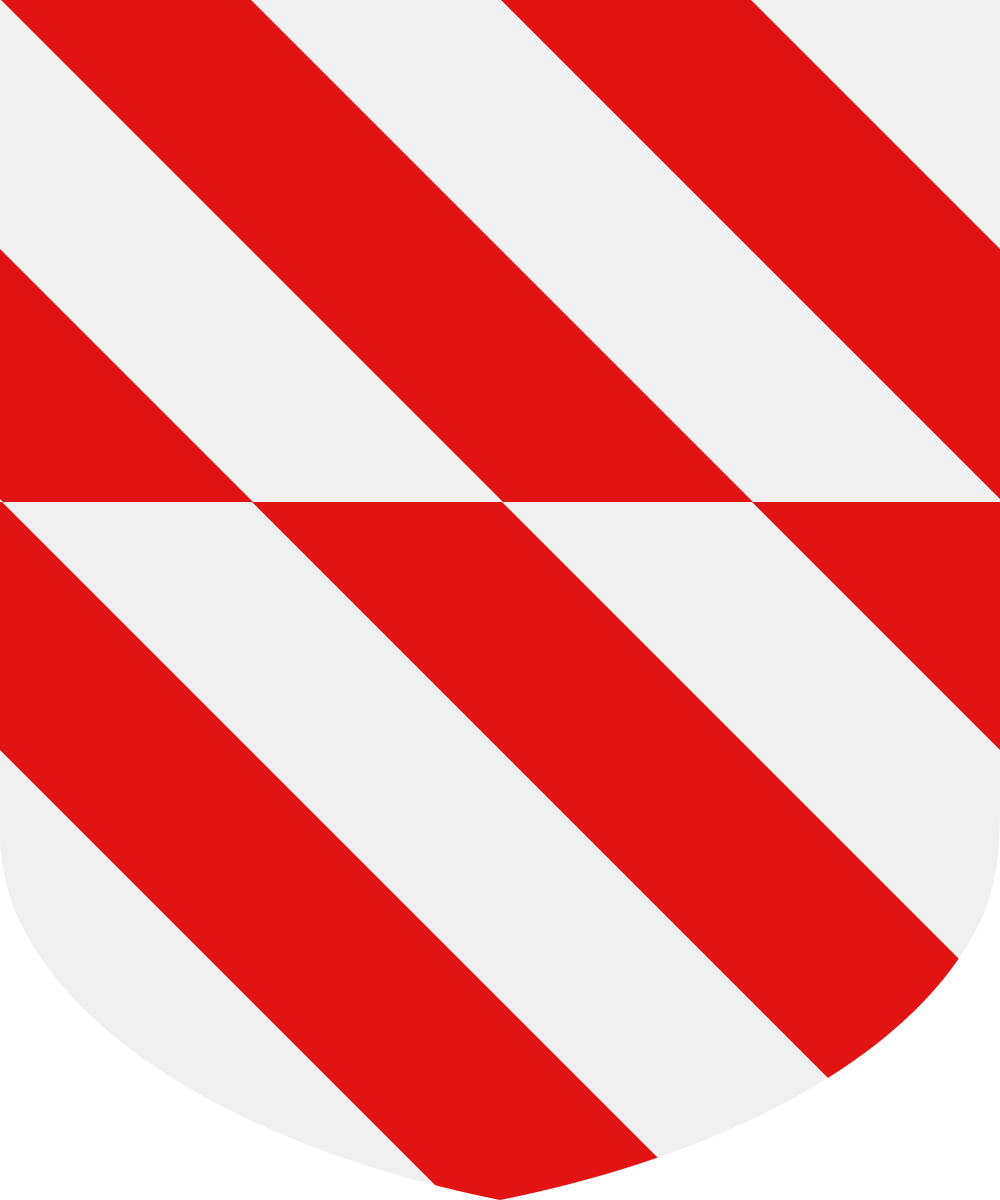 coat arms Muggia family